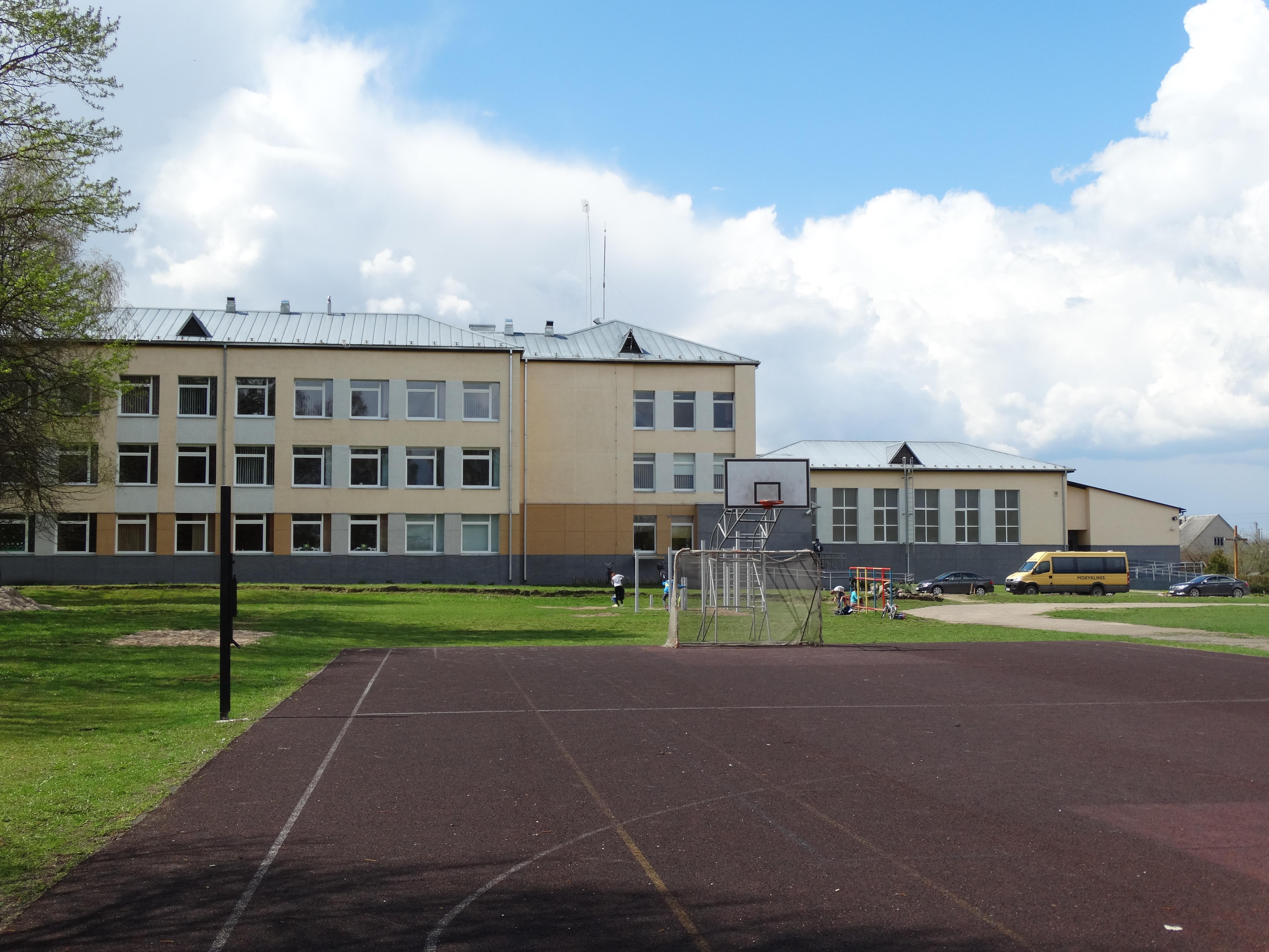 Mykolas Balinskis Gymnasium, Jašiūnai, Šalčininkai District, Lithuania